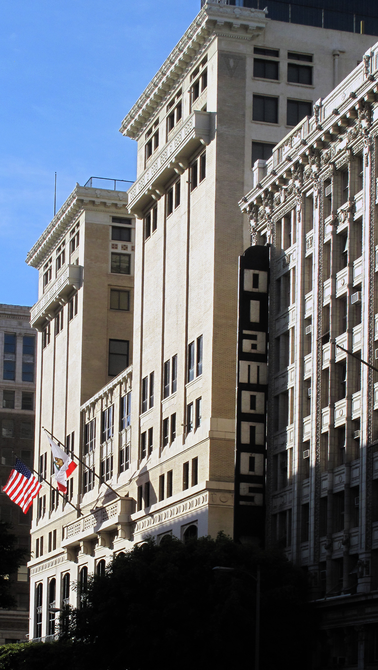 Los Angeles Athletic Club building — at 431 West 7th Street, in Downtown Los Angeles, California. The 1912 Beaux-Arts style clubhouse, designed by John Parkinson, is a Los Angeles Historic-Cultural Monument. "This is a difficult building to photograph from street level because it is hemmed in by other tall buildings."